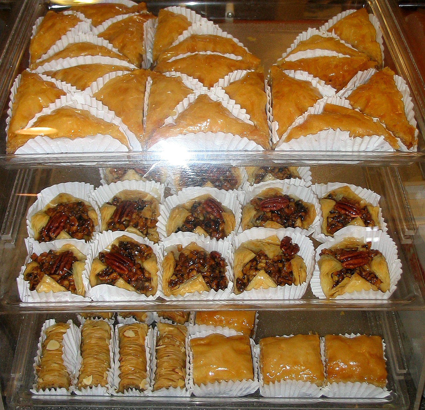 Several types of Baklava